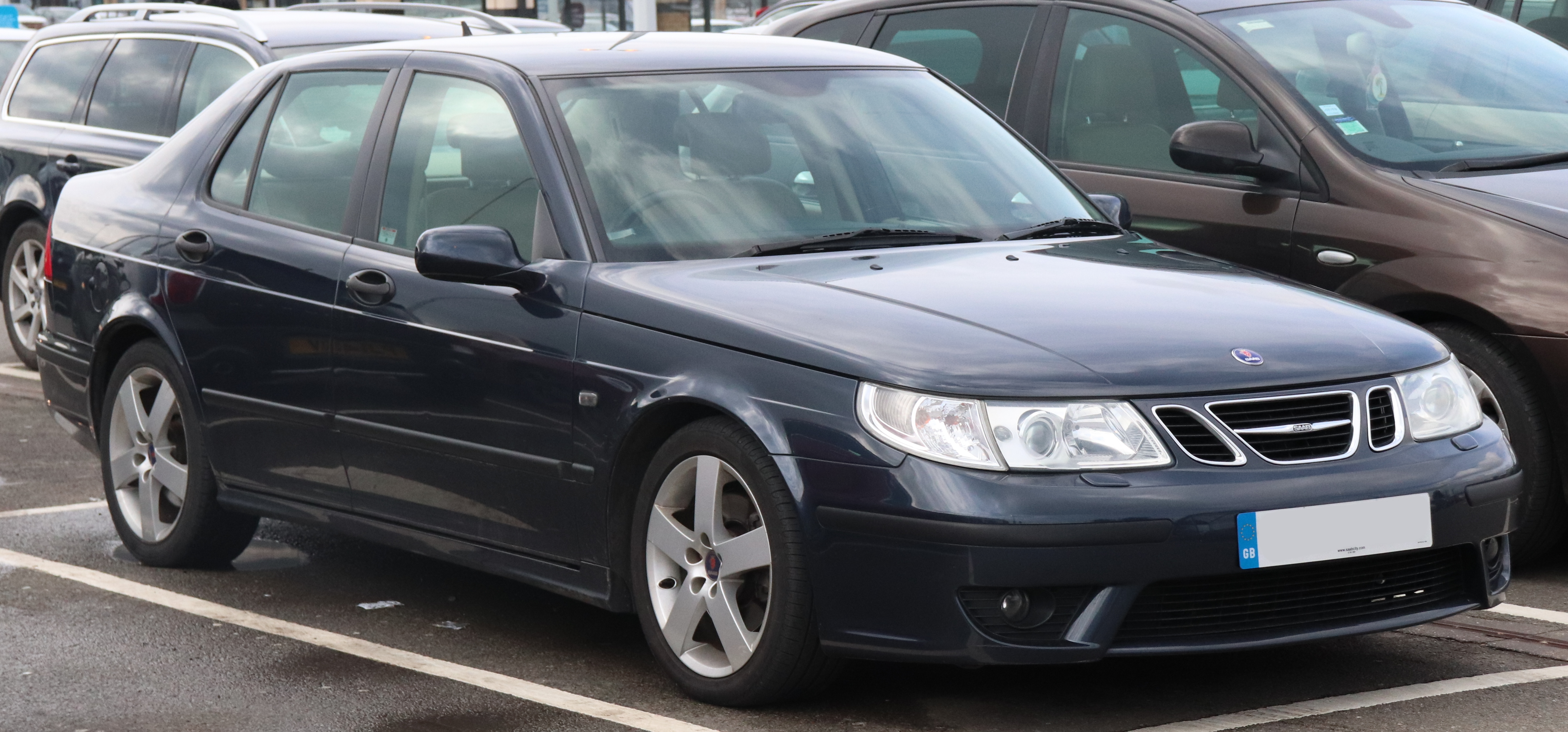 2005 Saab 9-5 Aero Automatic 2.3 Taken in Leamington Spa